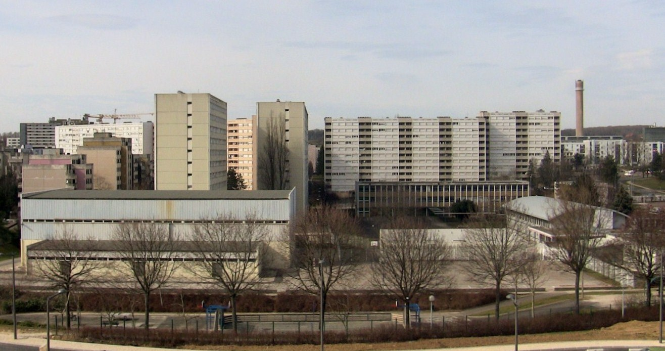 Diderot school, located in Besançon (Doubs, France).